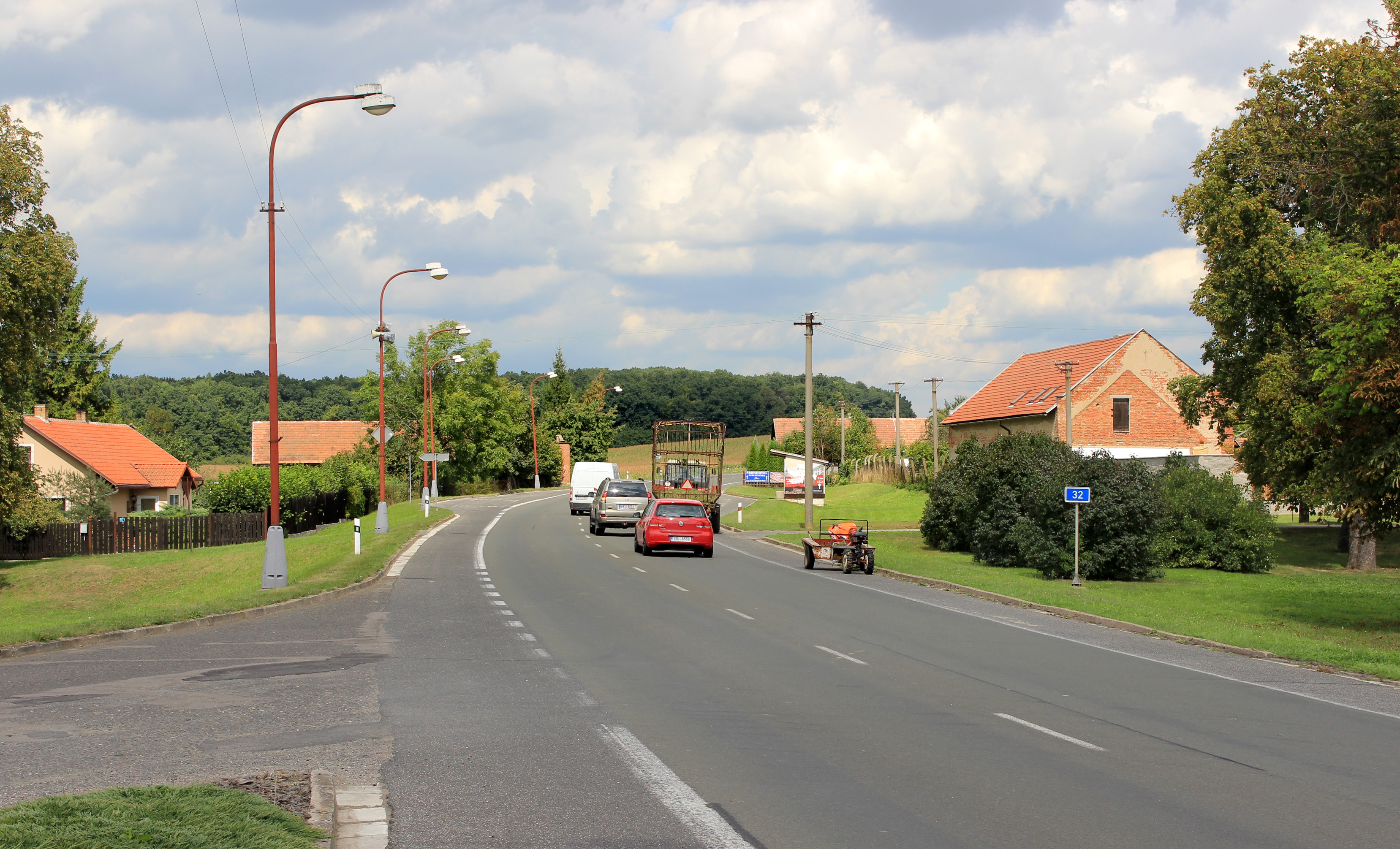 Road No. 32 in Budčeves, Czech Republic.